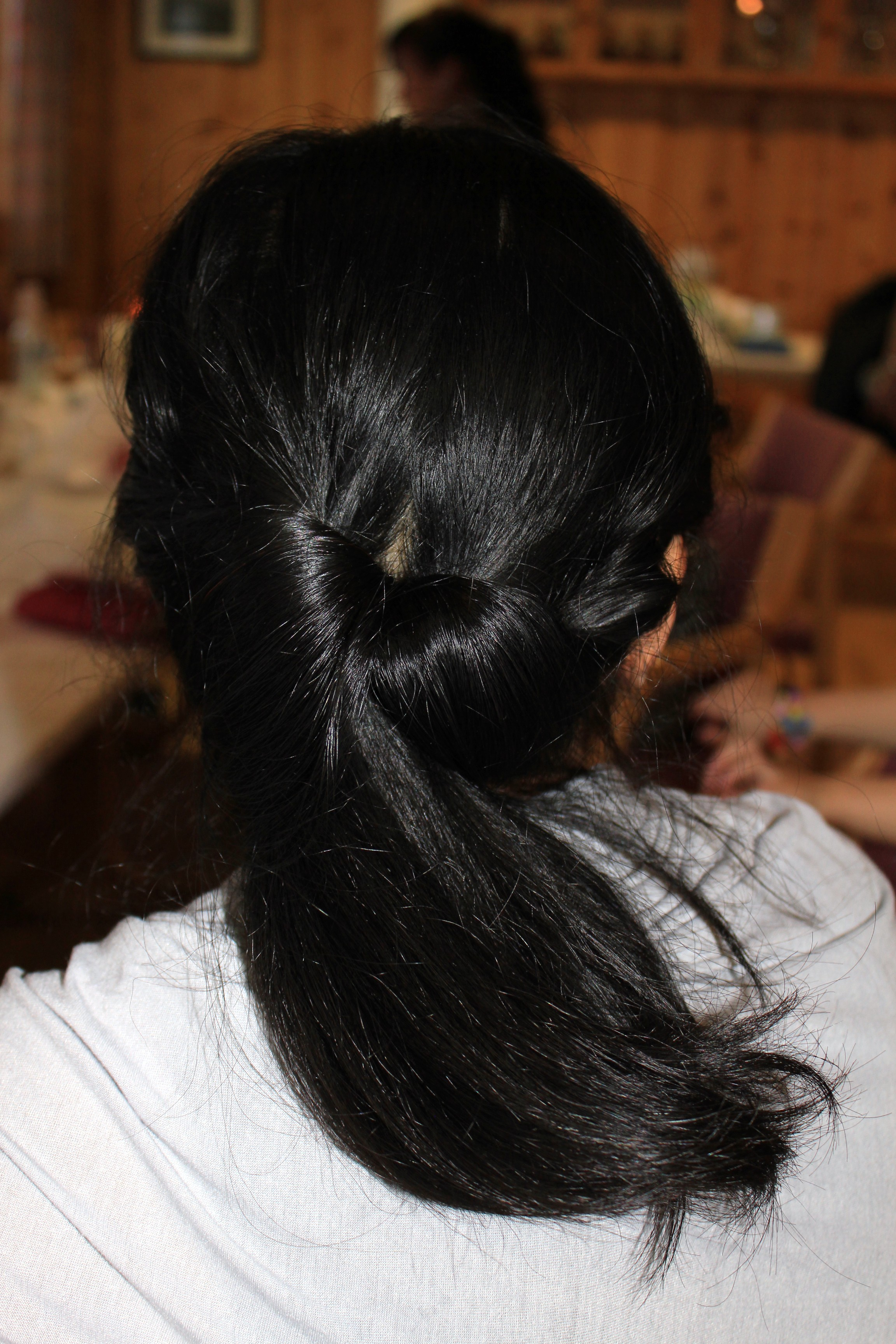 Asian female hair.